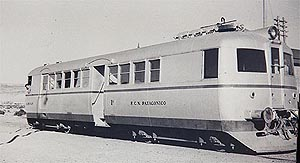 A Drewry railcar that served on Ferrocarriles Patagónicos of Argentine State Railways before it become "Ferrocarriles Argentinos".